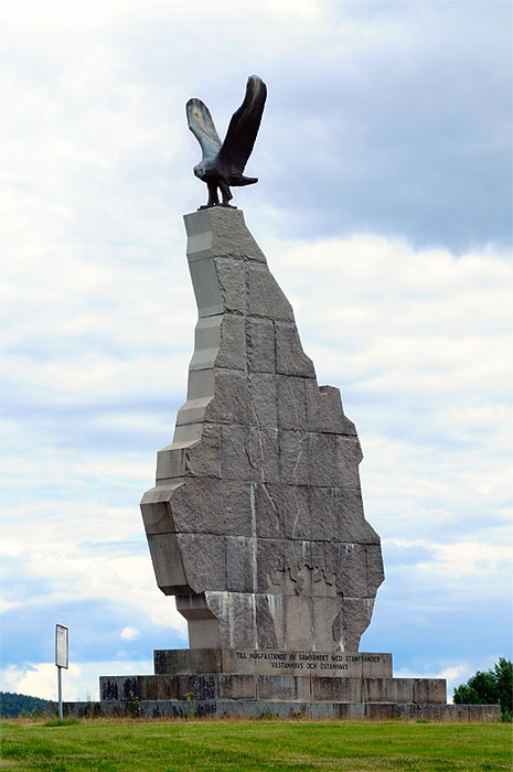 The memorial monument "In remembrance of the relation between relatives west and east of the ocean" The monument is placed in Rottneros along the road E45 outside of Sunne in Värmland, Sweden. It is raised to honour and remember all the immigrants from Finland and also to them who emigrate to America. The eagle made of bronze on the top of the monument and the granit-monumet itself was made by the Finnish artist Jussi Mäntynen and inagurated june 22 1953. It was ordered and all paied for by, the owner of The Rottneros Works, Svante Påhlson. Present at the expensive inaguration was a minister of Finland, the ambassador of USA and the local county governor, Acke Westling, as well as a lot of prominent persons. The two latest regents of Sweden has been visiting and signed the monument on their royal tour of the country, Gustaf VI Adolf june 27 1953 and Carl XVI Gustaf september 11 1974. Photo: Jerry MagnuM Porsbjer 2008.